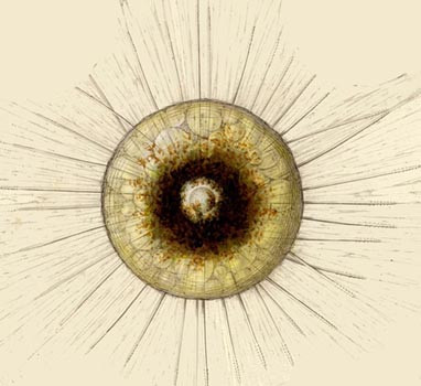 Radiolaria Source Ernst Haeckel's monograph on Radiolaria, 1862 Kurt Stueber, Max-Planck-Institut für Züchtungsforschung